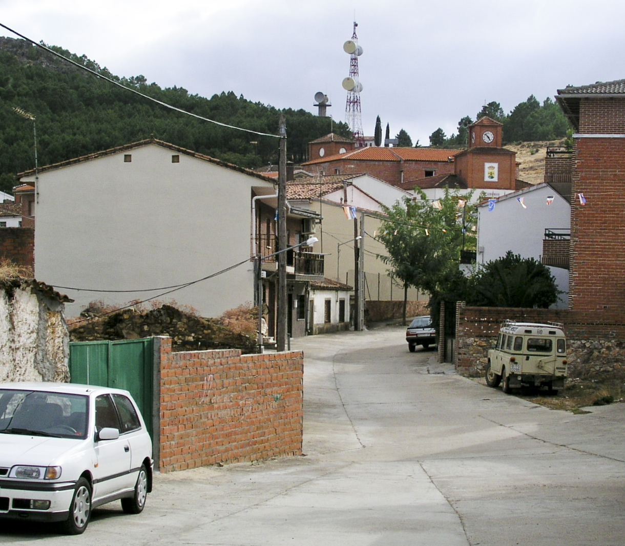 Street view, Puerto de San Vicente, Province of Toledo, Spain.